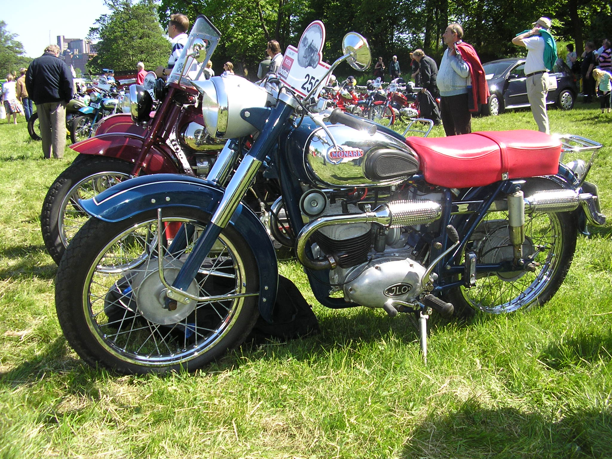 Monark motorcycle with JLO engine.